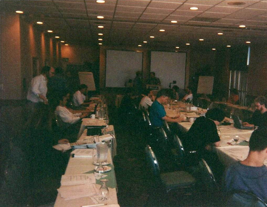 The ISO/IEC JTC1/SC22/WG21 C++ Standards Committee meeting in a Wednesday general session at the Dream Inn in Santa Cruz, California in March 1996. C++ inventor Bjarne Stroustrup is seen standing on the left.